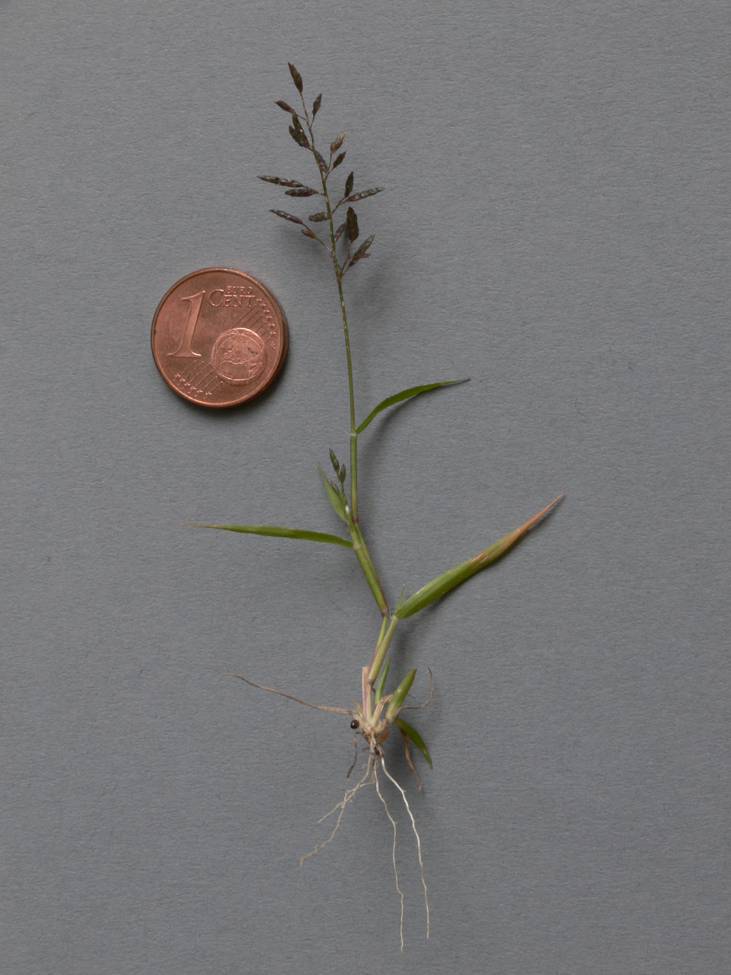 little lovegrass